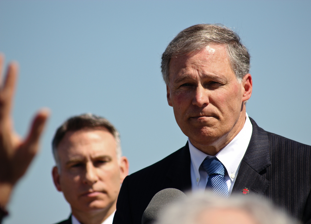 Washington Governor Jay Inslee answers questions after his speech. Inslee revealed his plans to keep production of Boeing's 777-X in Washington.